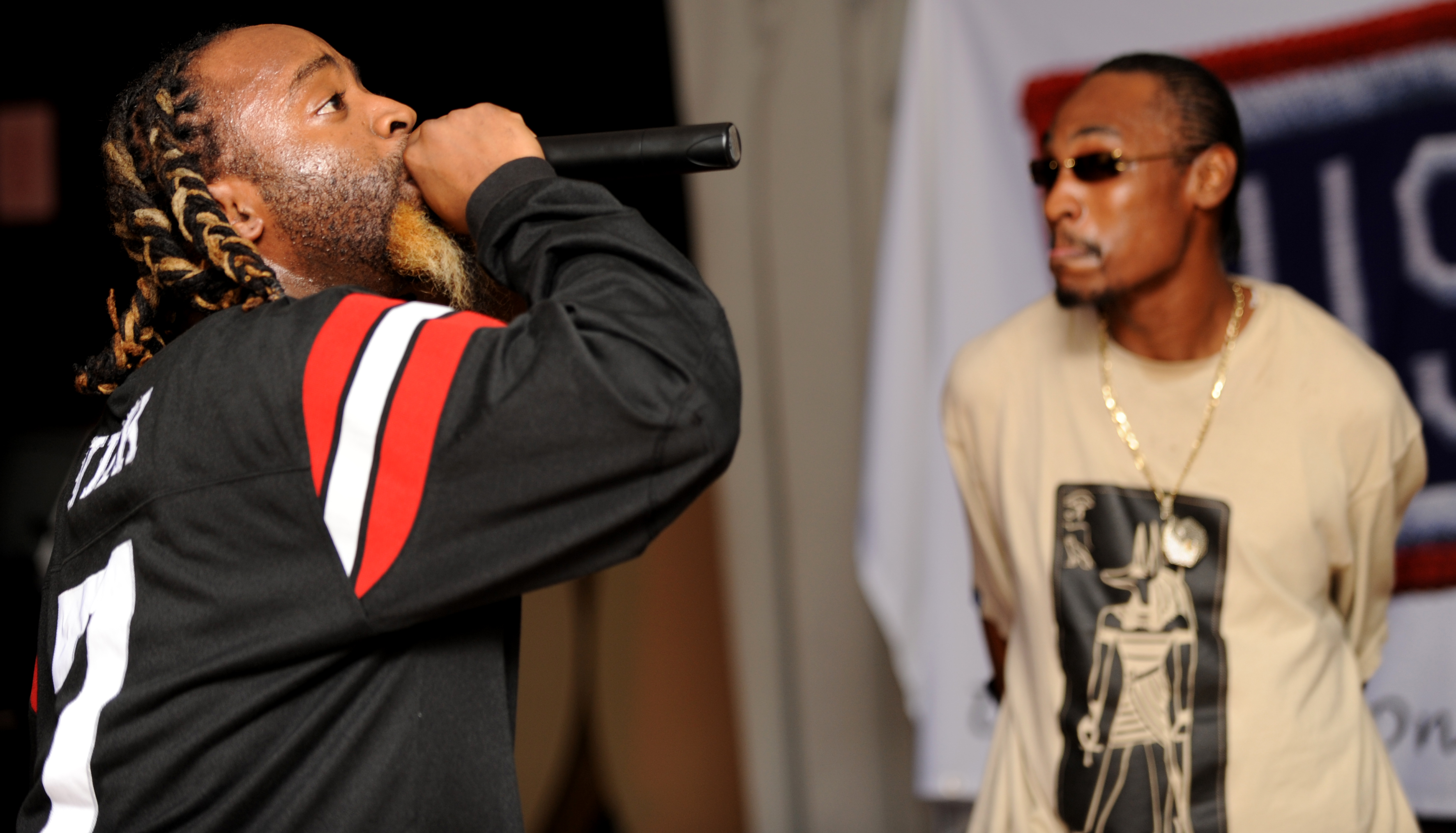 Rappers Kaine, left, and D-Roc, of the Ying Yang Twins, perform during a USO show at Thule Air Base, Greenland, November 9th, 2008.